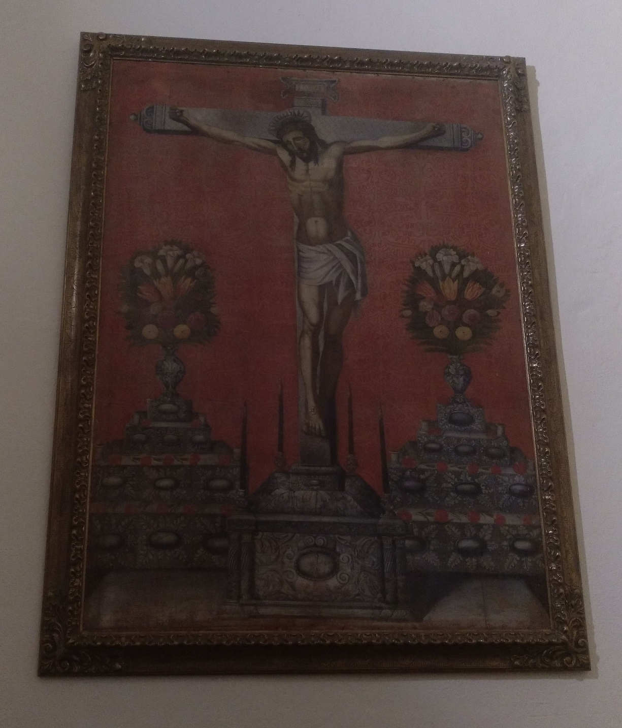 Vera effigy of the Christ of La Laguna in the Mother Parish of Our Lady of Guadalupe.